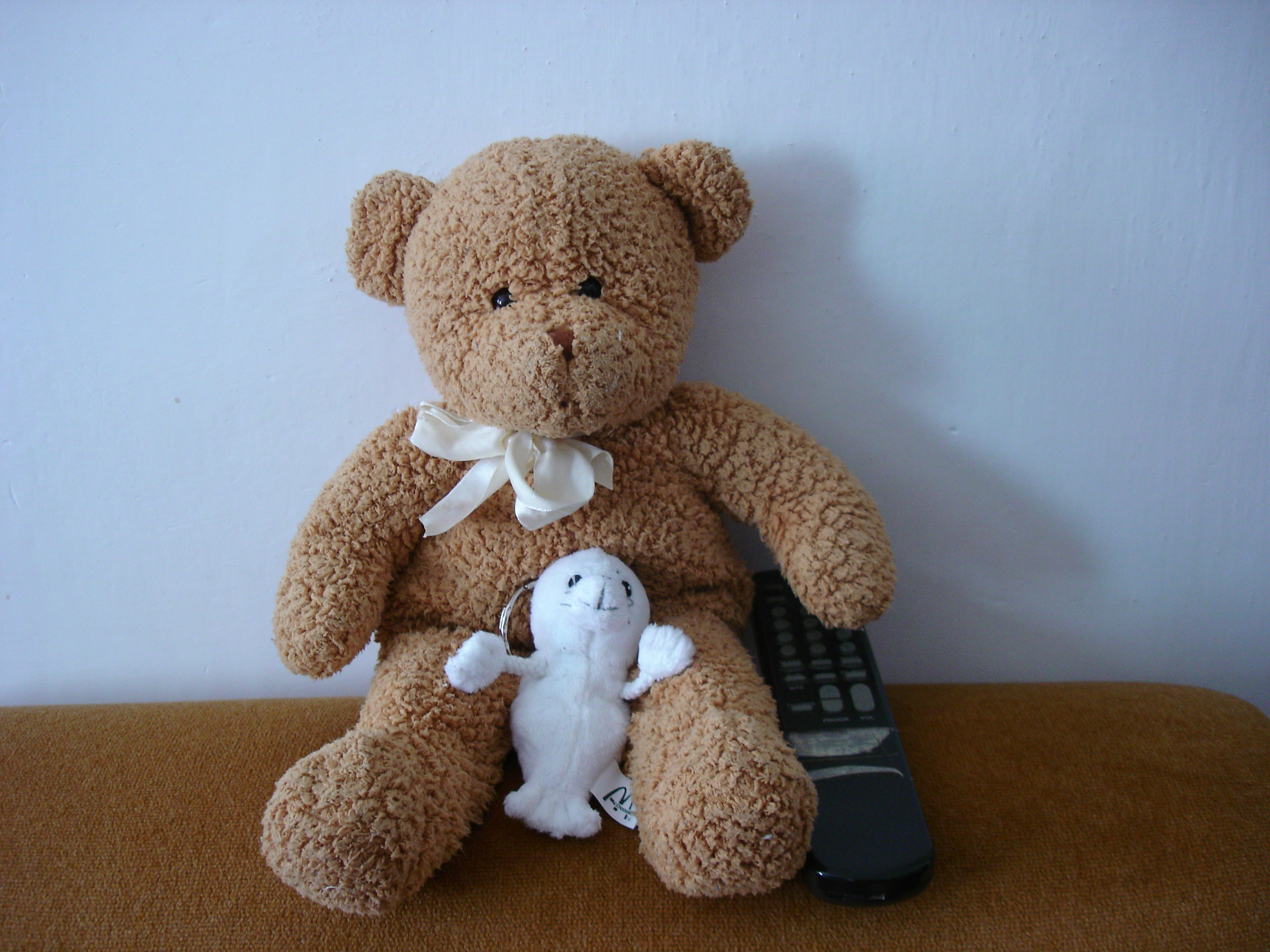 soft toy teddy with seal.